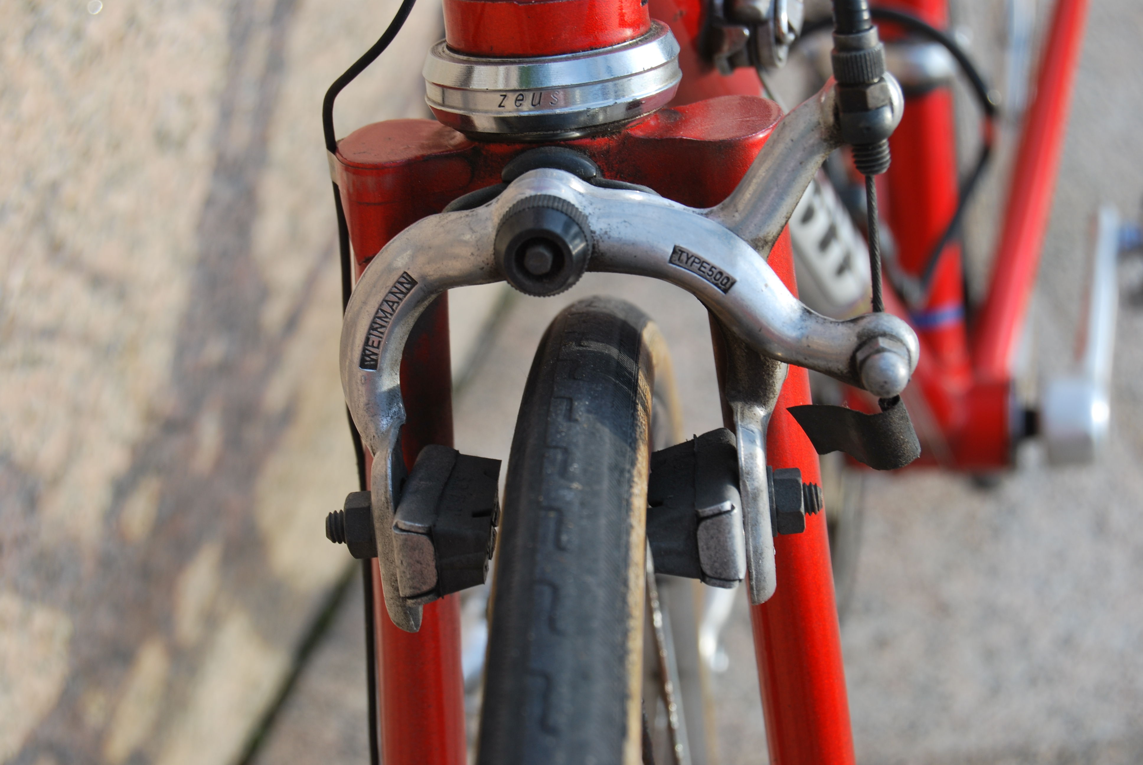 Wheel brakes in front of bike Zeus (year 1986)